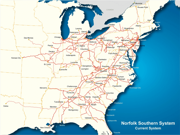 Norfolk Southern System